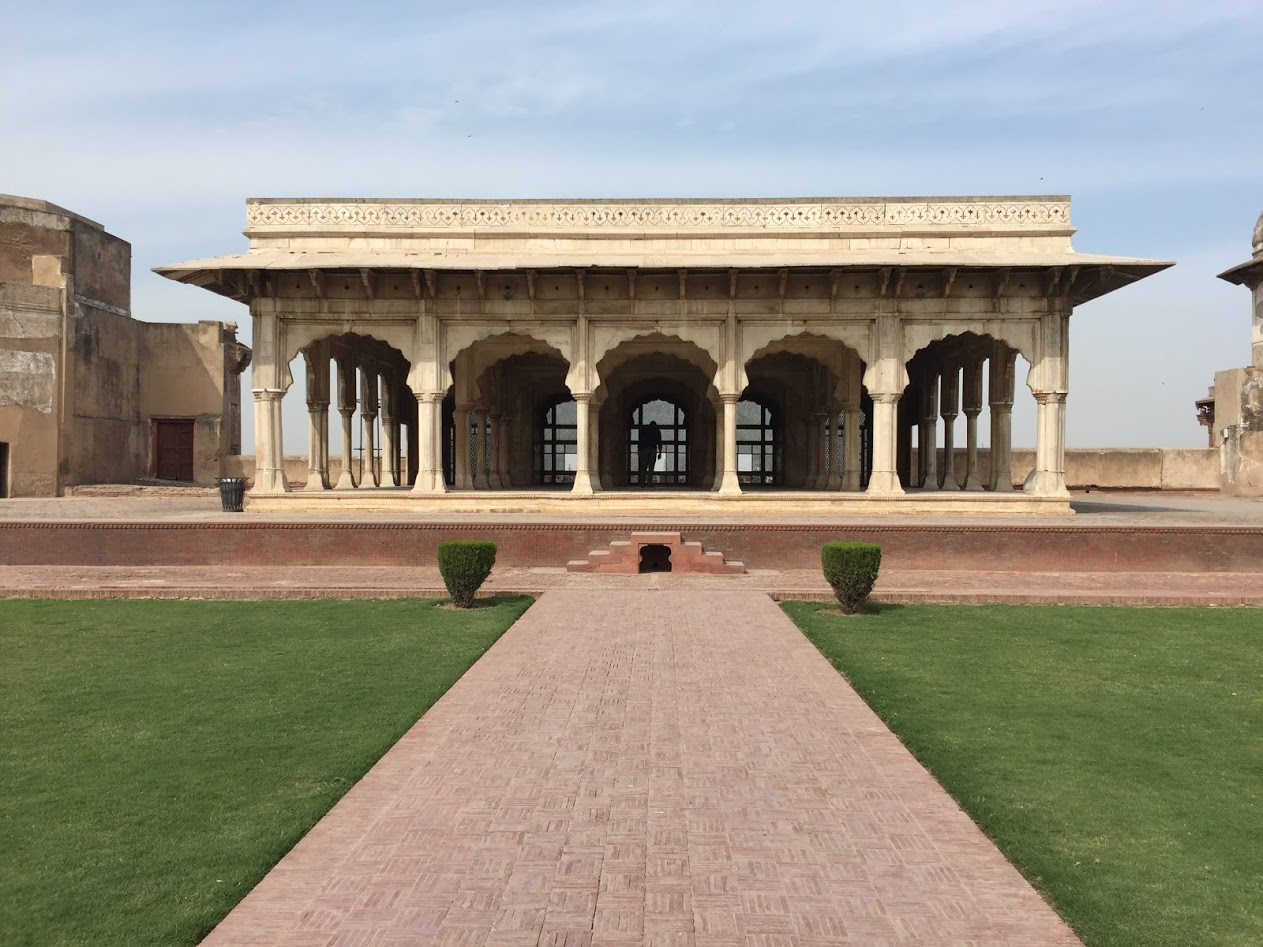 Diwan-i-Khas, March 2016.